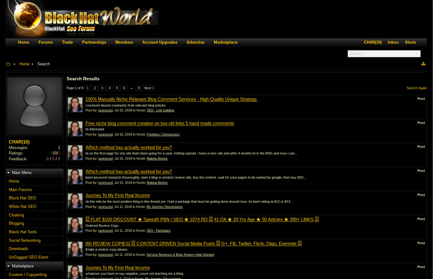 Screenshot of the BlackHatWorld Internet forum (Firefox, 13 August, 2018)